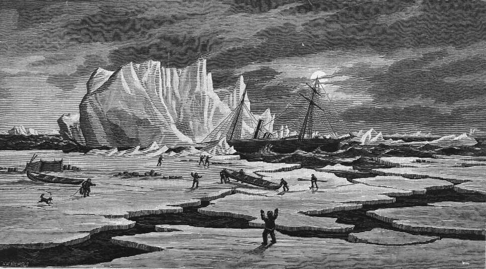 "The Separation, Oct. 15, 1872."